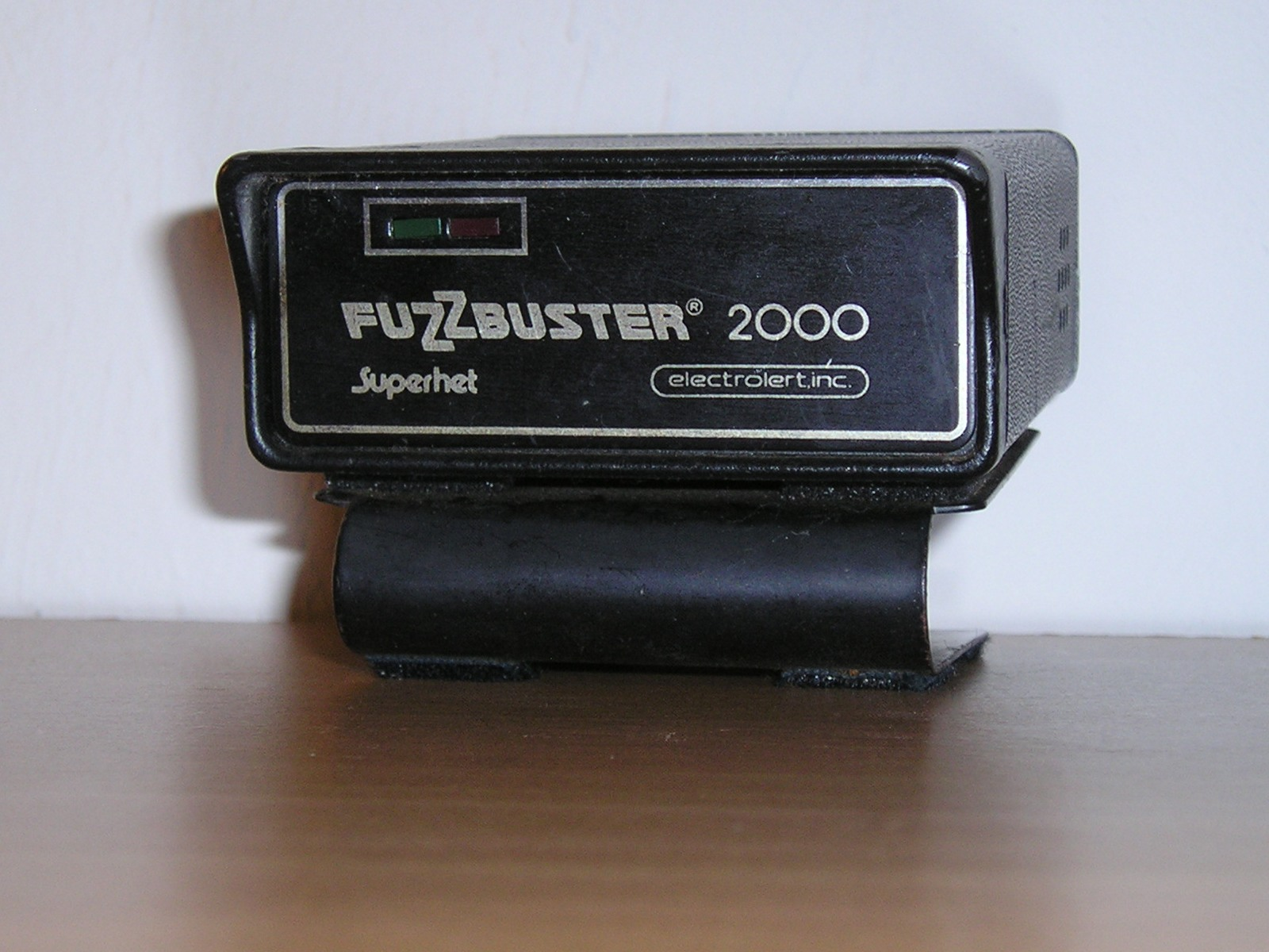 The Fuzzbuster 2000, an early radar detector.